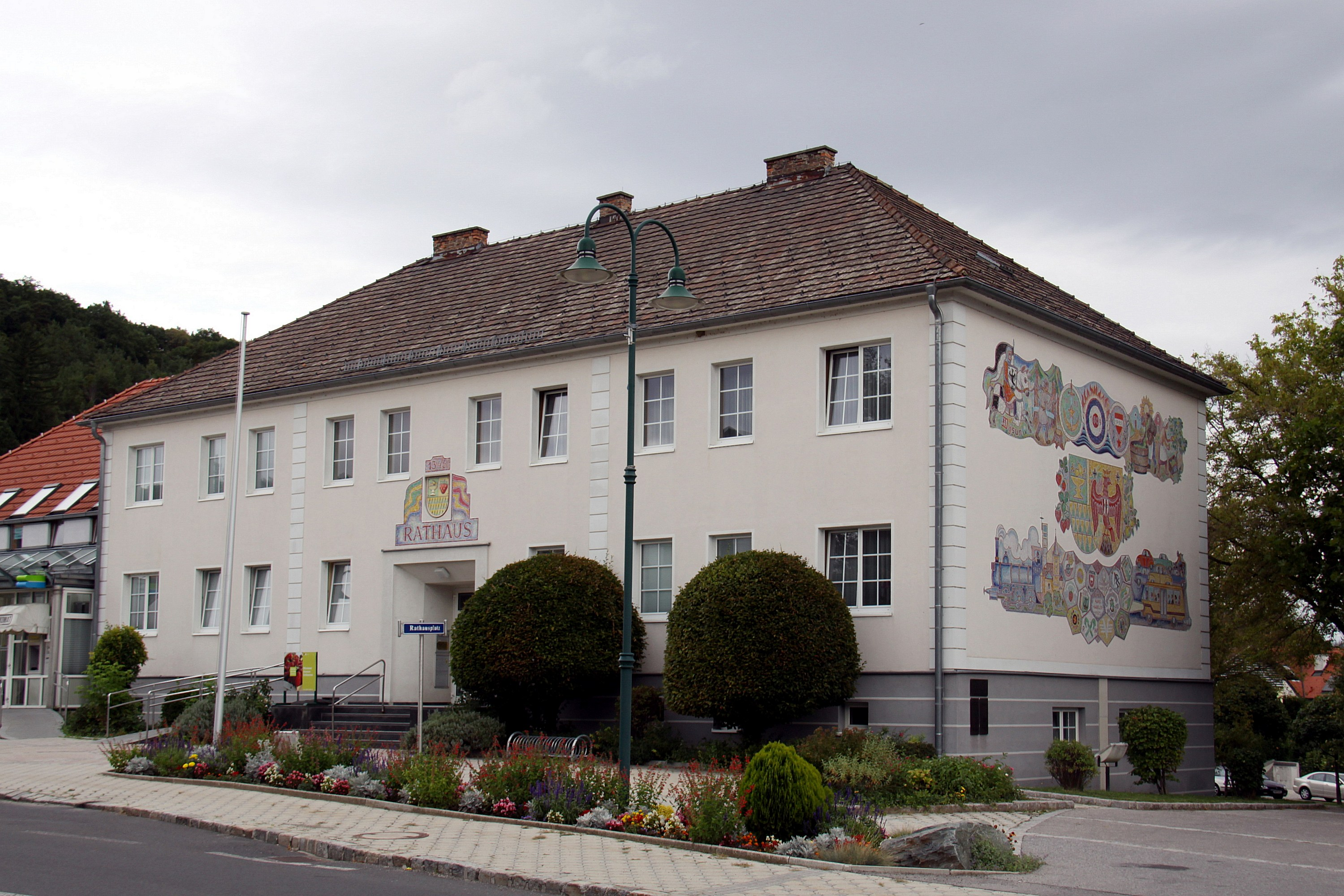 Municipal office - Wiesen (Burgenland) Object location47° 44′ 23.13″ N, 16° 20′ 18″ E